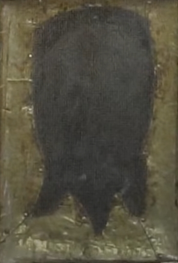 The version of the Veil of Veronica kept in St. Peter's Basilica in the Vatican